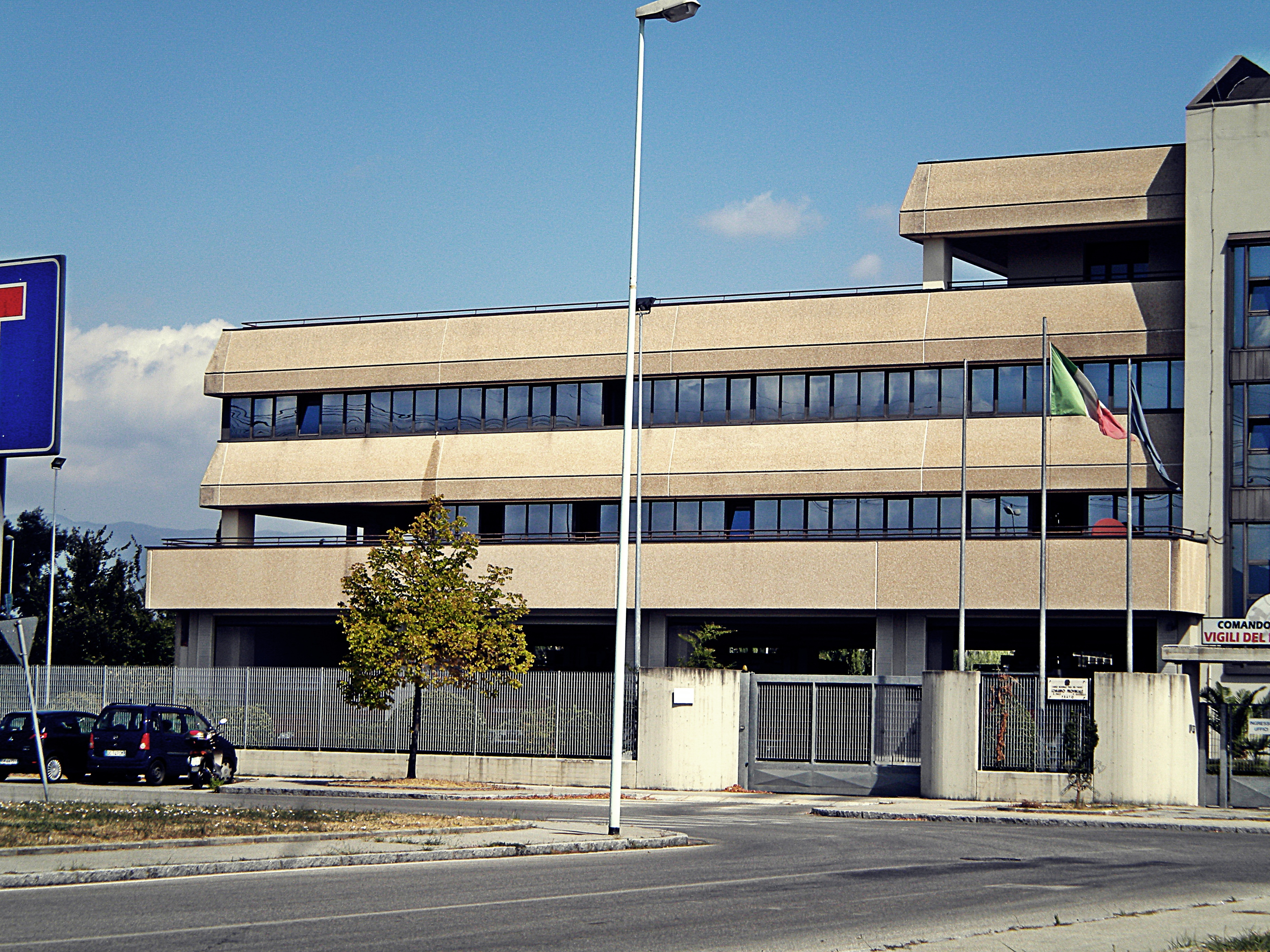 Firemen palace in Prato